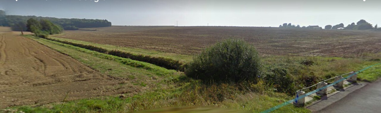 A view of the Ecogne Creek from the D12 Rd. (within the boundaries of that commune called La Ginguette) nearby it’s confluence with the Bièvre CreekN of Brieulles-sur-Bar, Ardennes dept, Grand Est, France